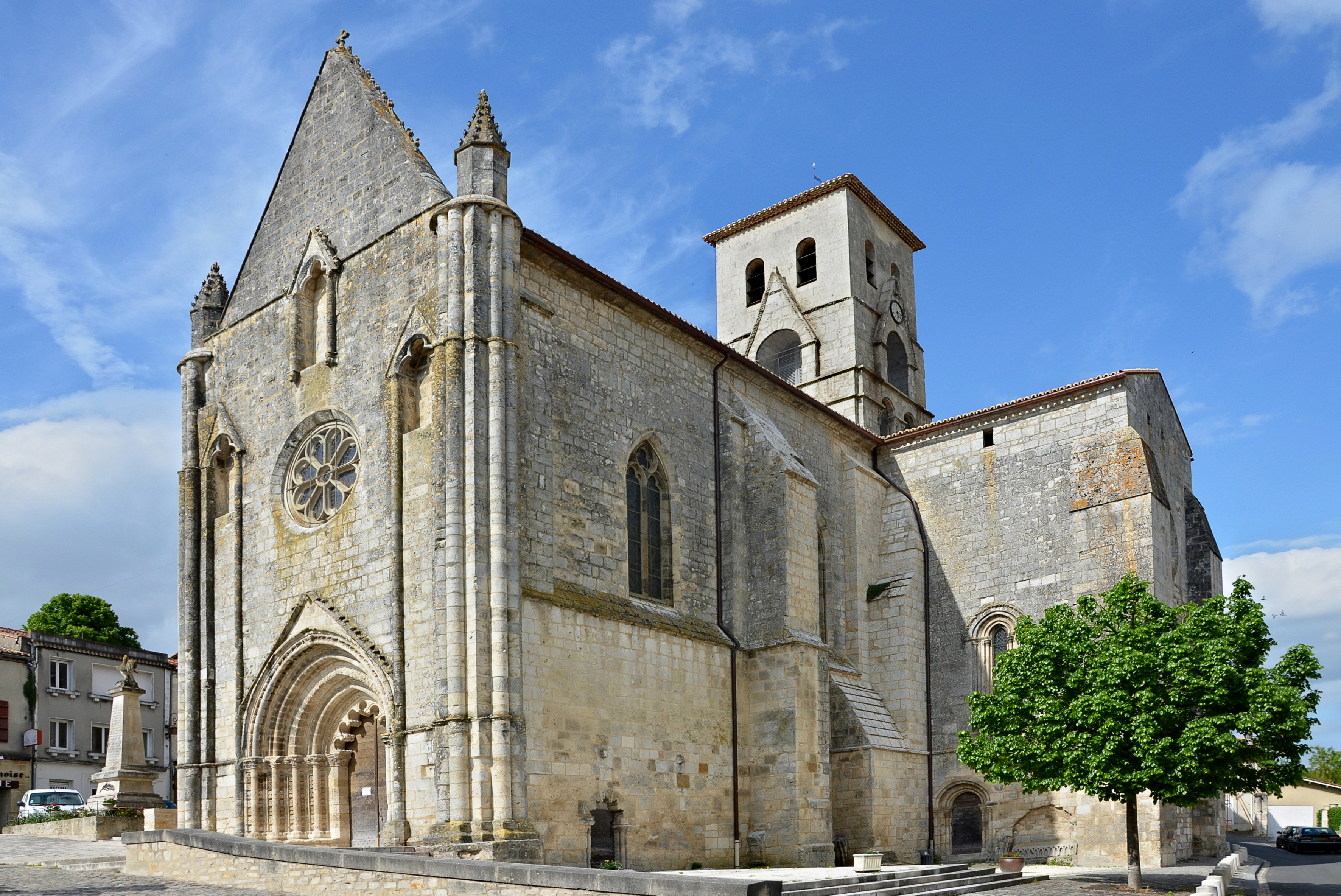 Church of Saint-Arthémy (12th-13th centuries), exterior. Blanzac-Porcheresse, Charente, France. .